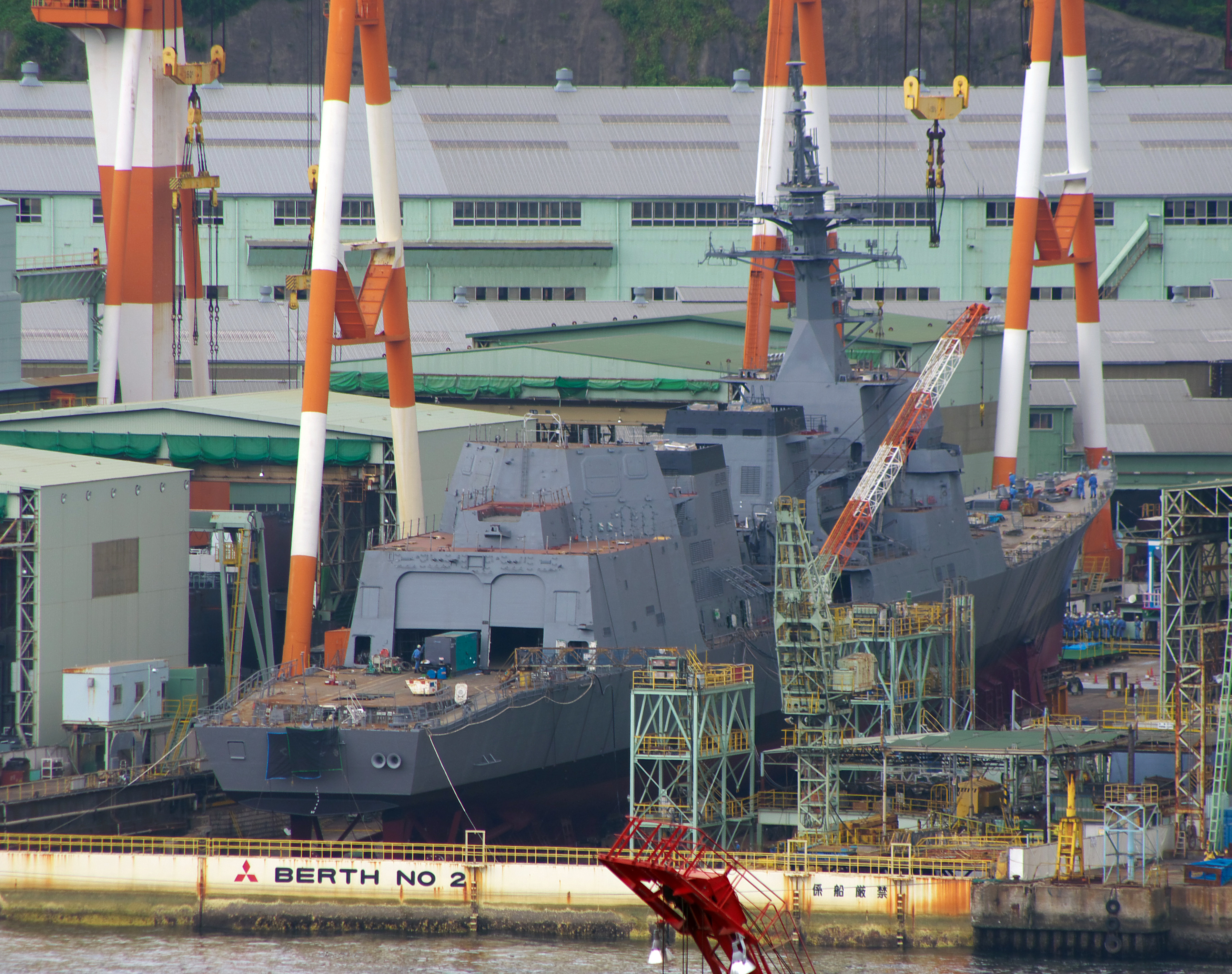 JS Teruzuki (DD-116) under contstruction at Mitsubishi Nagasaki Shipyard, six days before her launch. Pentax K-5